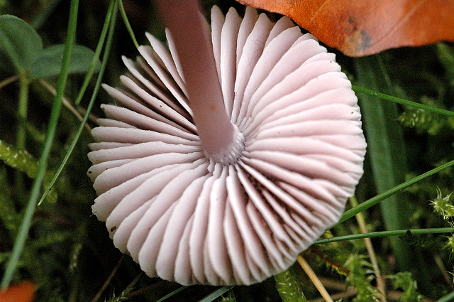 Mycena pura from Commanster, Belgium. The determination of the species shown in this picture has been verified.